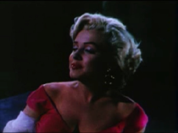 Marilyn Monroe singing in the theatrical trailer of the 1953 film Niagara directed by Henry Hathaway.